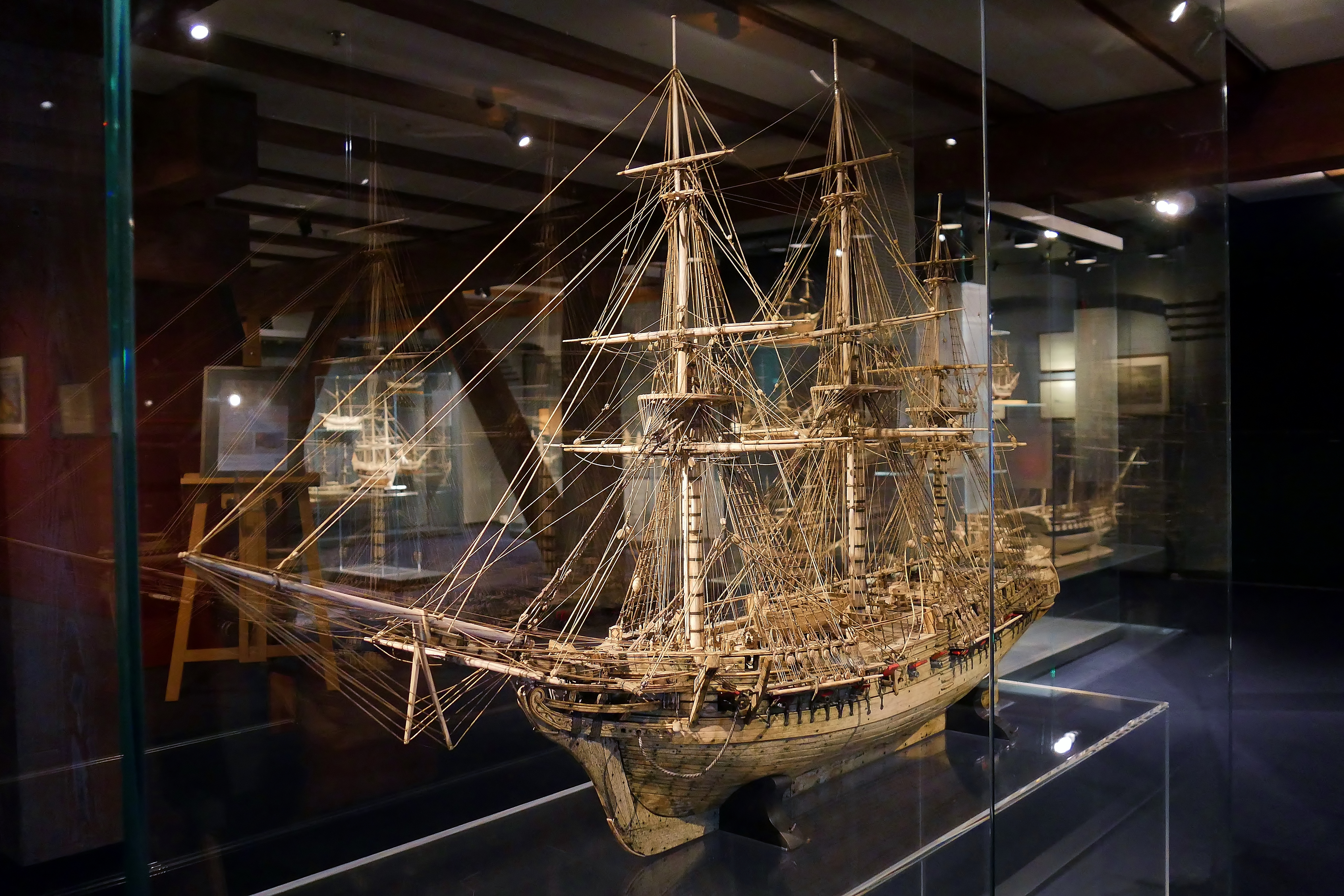 bone ship 'Chesapeake'